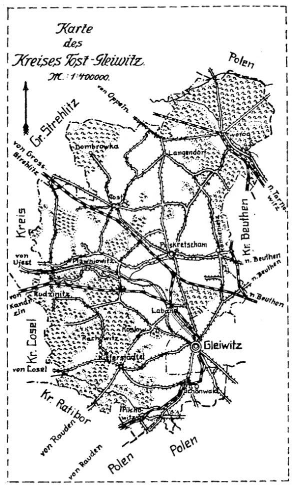 Map of the Tost-Gleiwitz County